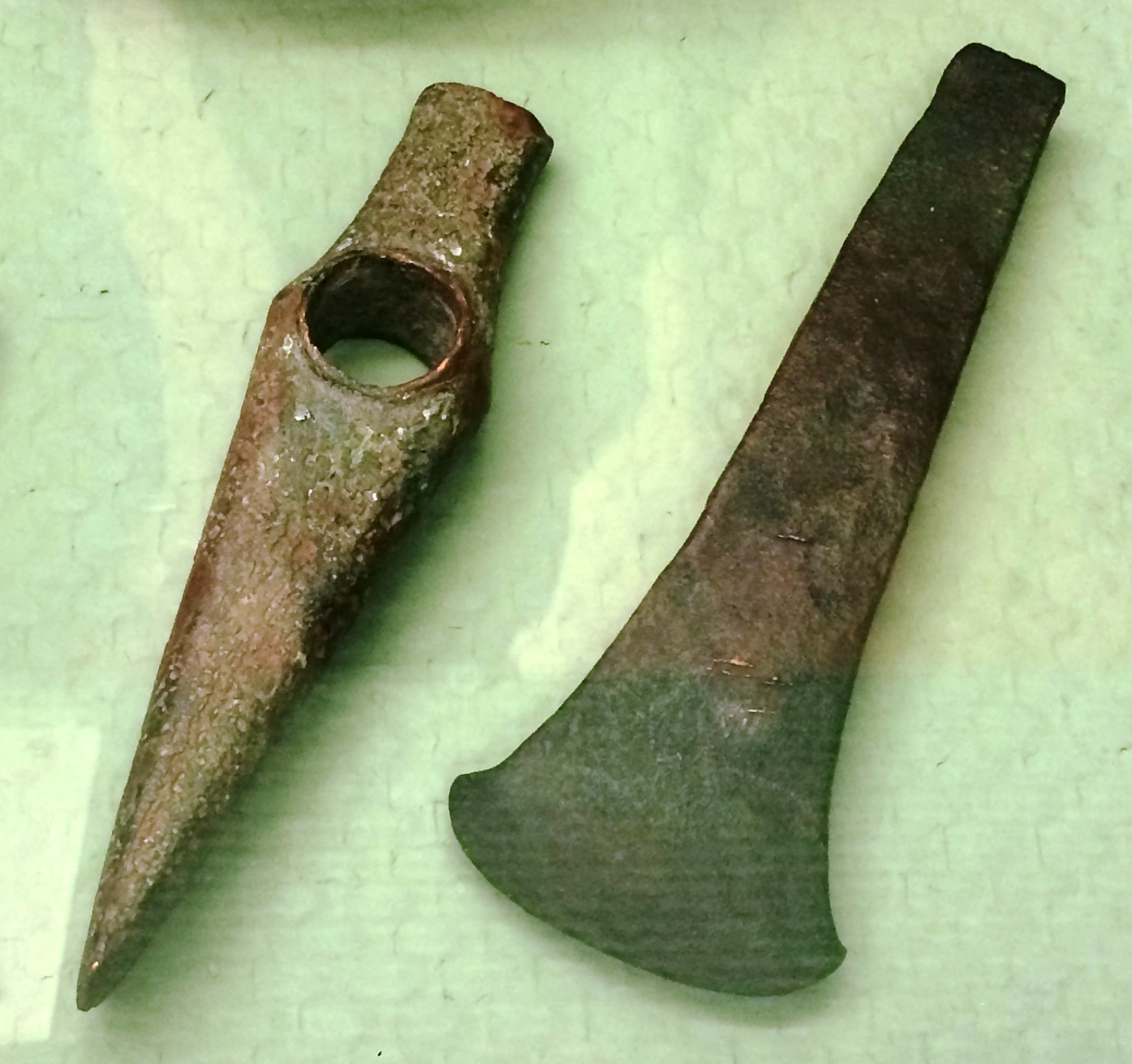 Copper Ax from the Middle Copper Age of HUngary c 3500-2799, the "Baden Culture". Implement at the Budapest History Museum